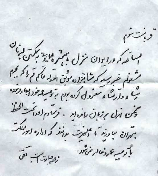 A Handwriting, supposedly Amir Kabir's (1807-1852), thought to be a fake and spurious handwriting